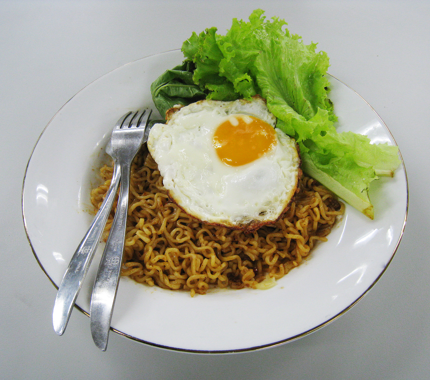 Indomie Mie Goreng Iga Penyet (squeezed rib) flavour. Indomie brand instant noodle, mie goreng (fried noodle), served with fried egg and vegetables. Served in Jakarta, Indonesia.